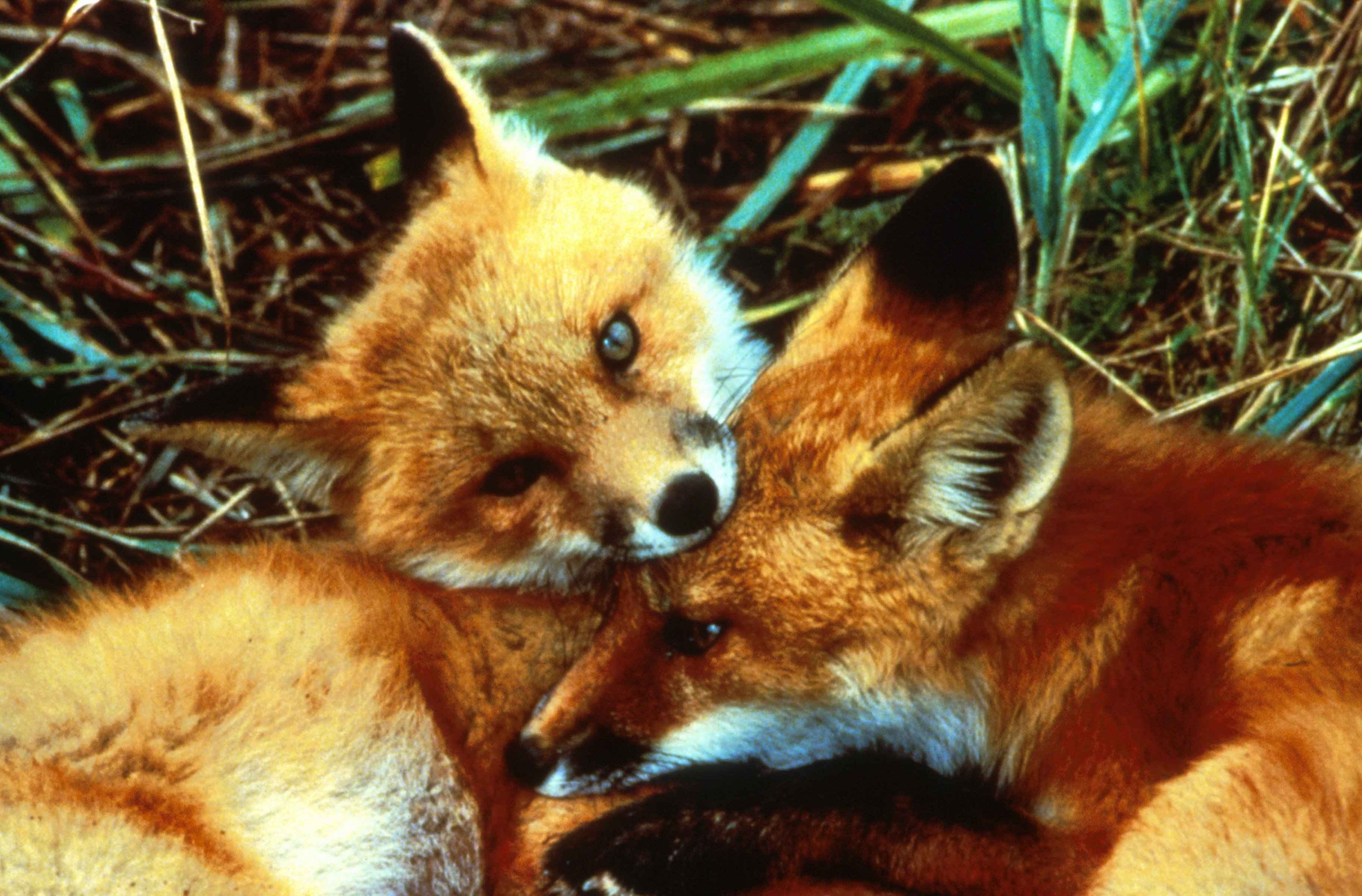 Image title: Red fox kits Image from Public domain images website